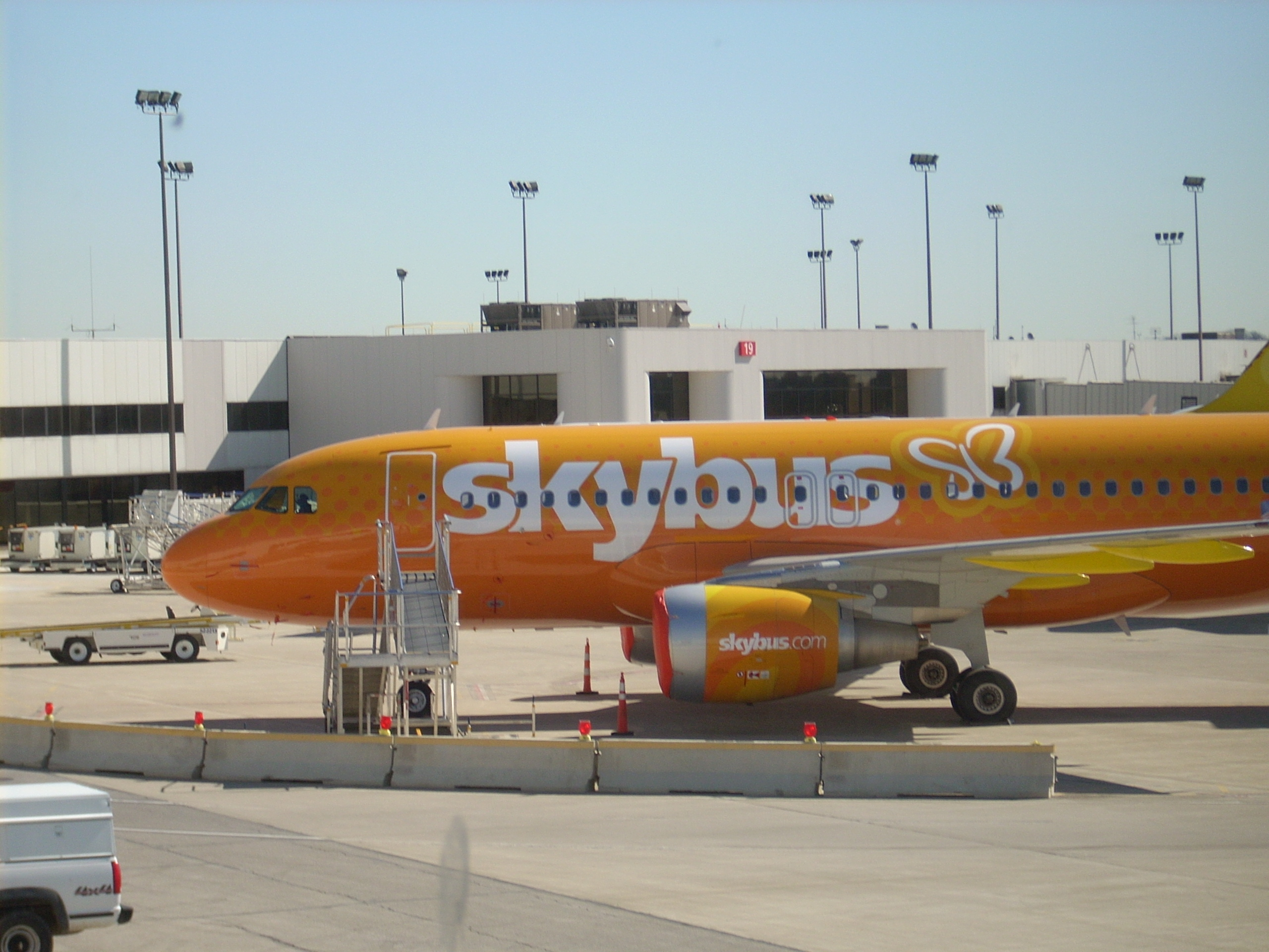 Picture of a Skybus A319 at a gate located at Port Columbus International Airport.